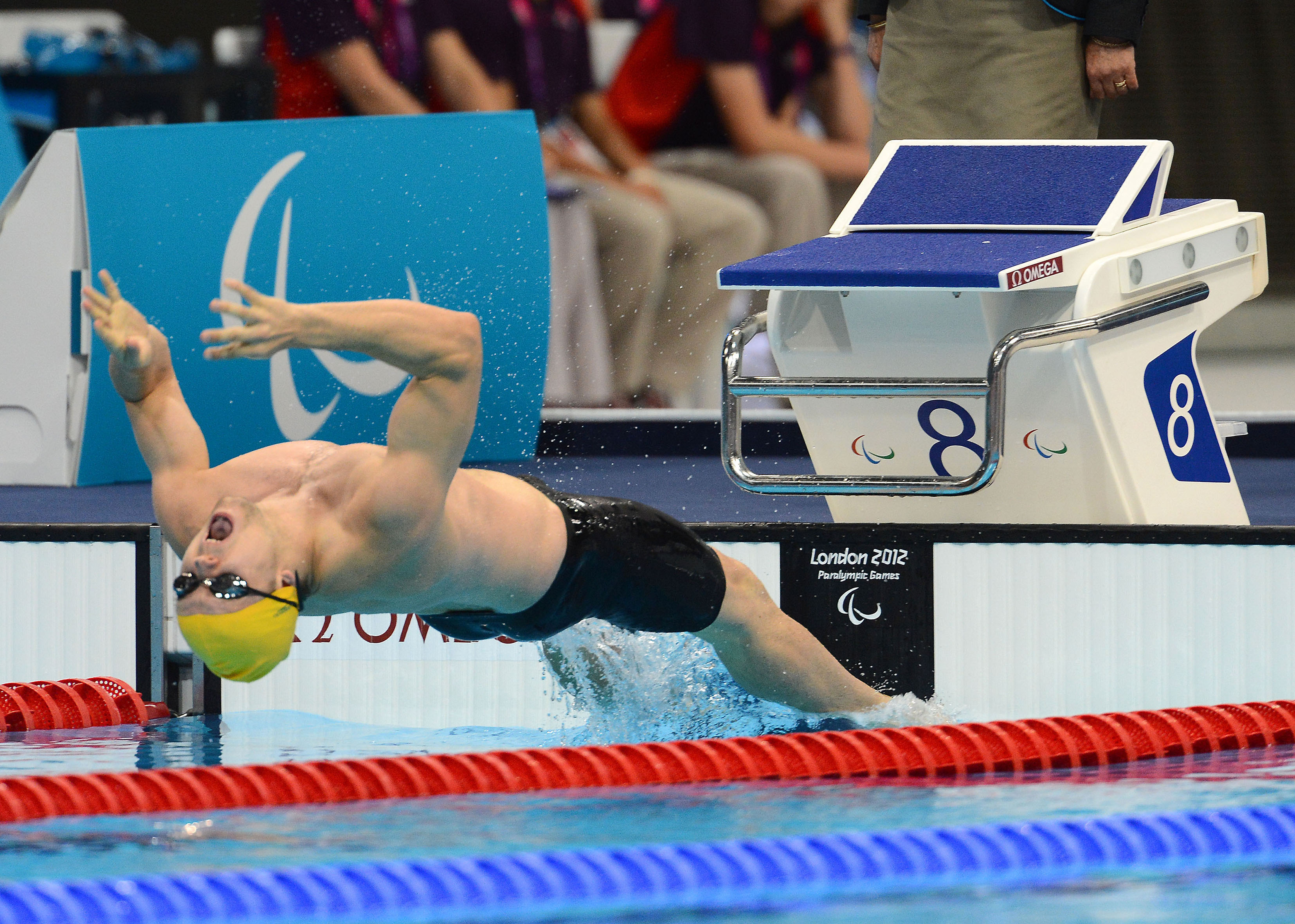 Photograph of Australian Paralympic team member Jeremy McClure at the 2012 Summer Paralympic Games in London